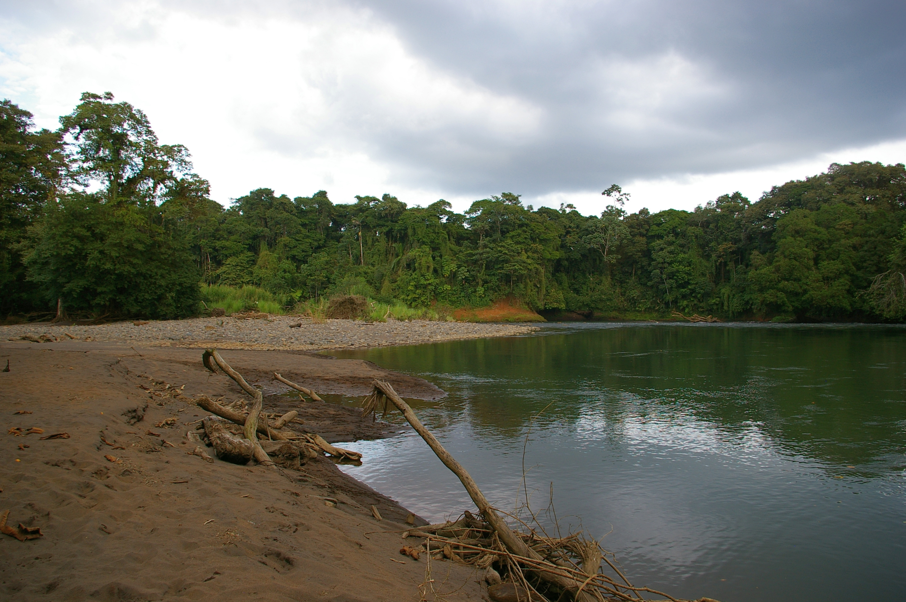 Rio Sarapiqui at La Selva Biological Station (Estación Biológica La Selva). Located in northeastern Costa Rica.